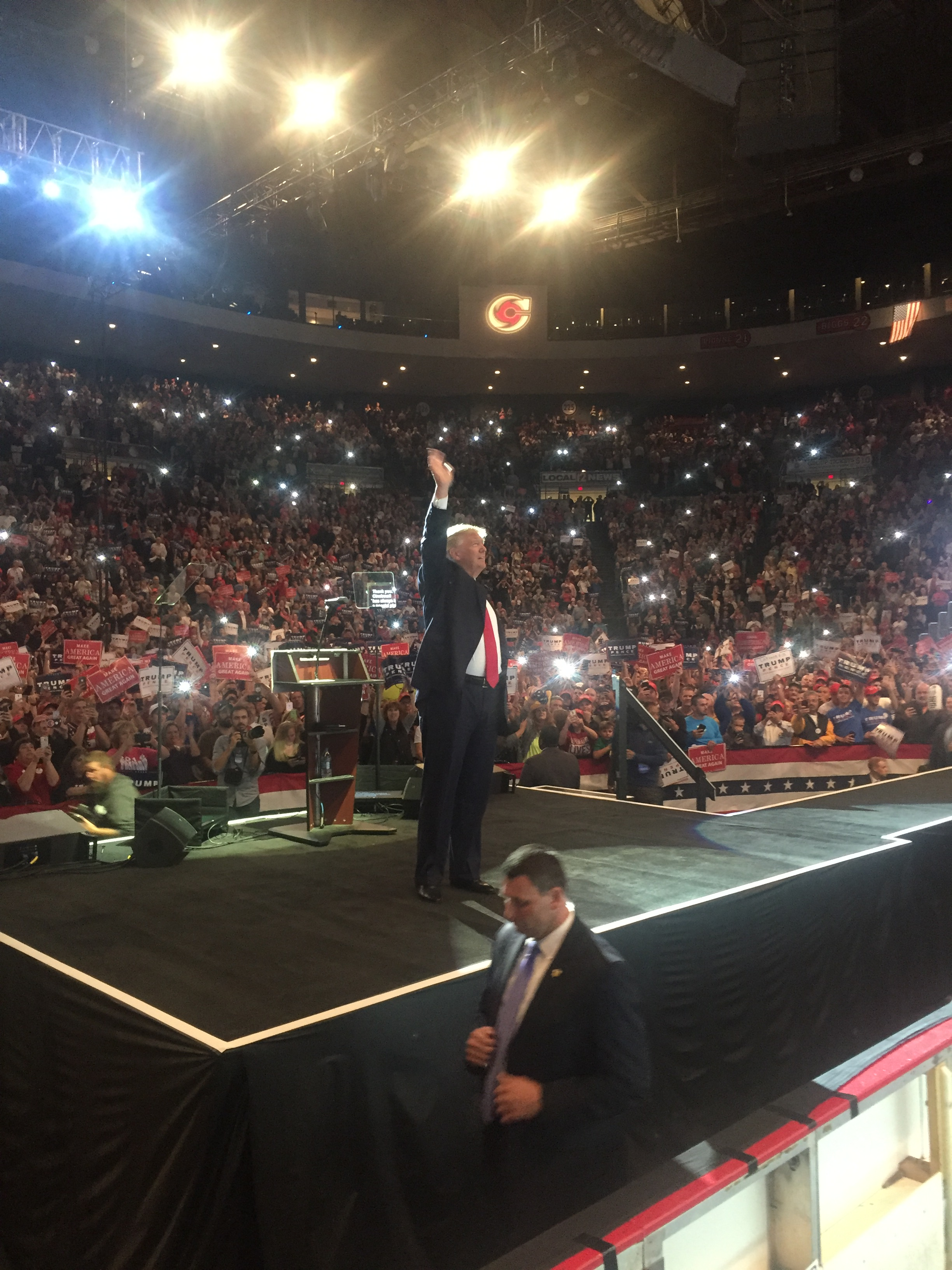 United States Presidential candidate (R) Donald John Trump speaking at a campaign rally in Cincinnati, Ohio on October 13, 2016.